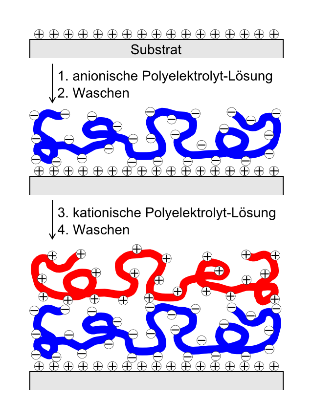 Assembly of one double layer with the LbL-Technique